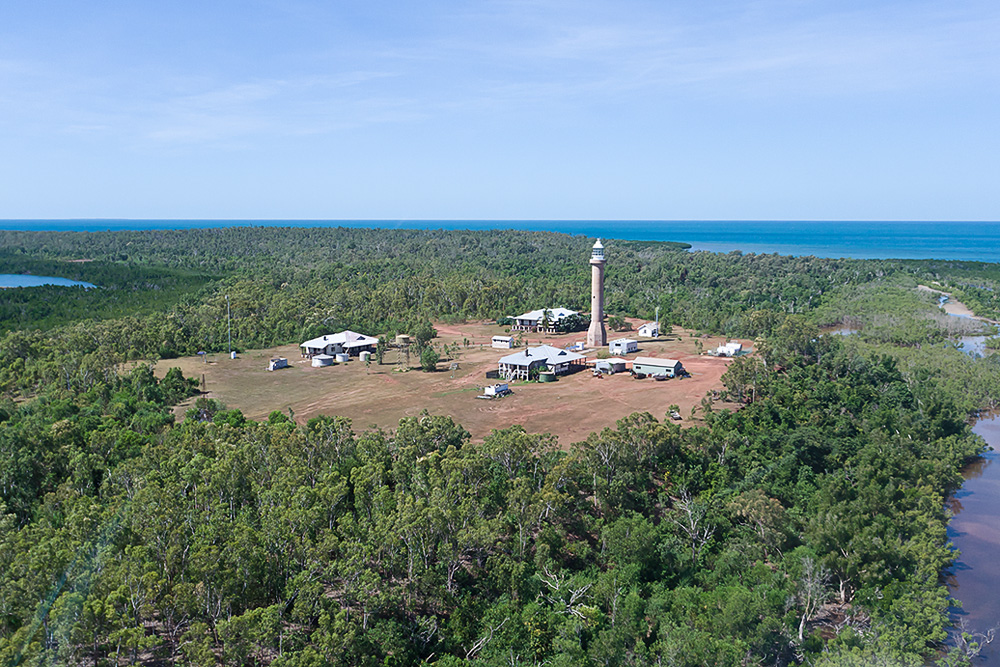 Cape Don lightstation, helicopter view from the north.